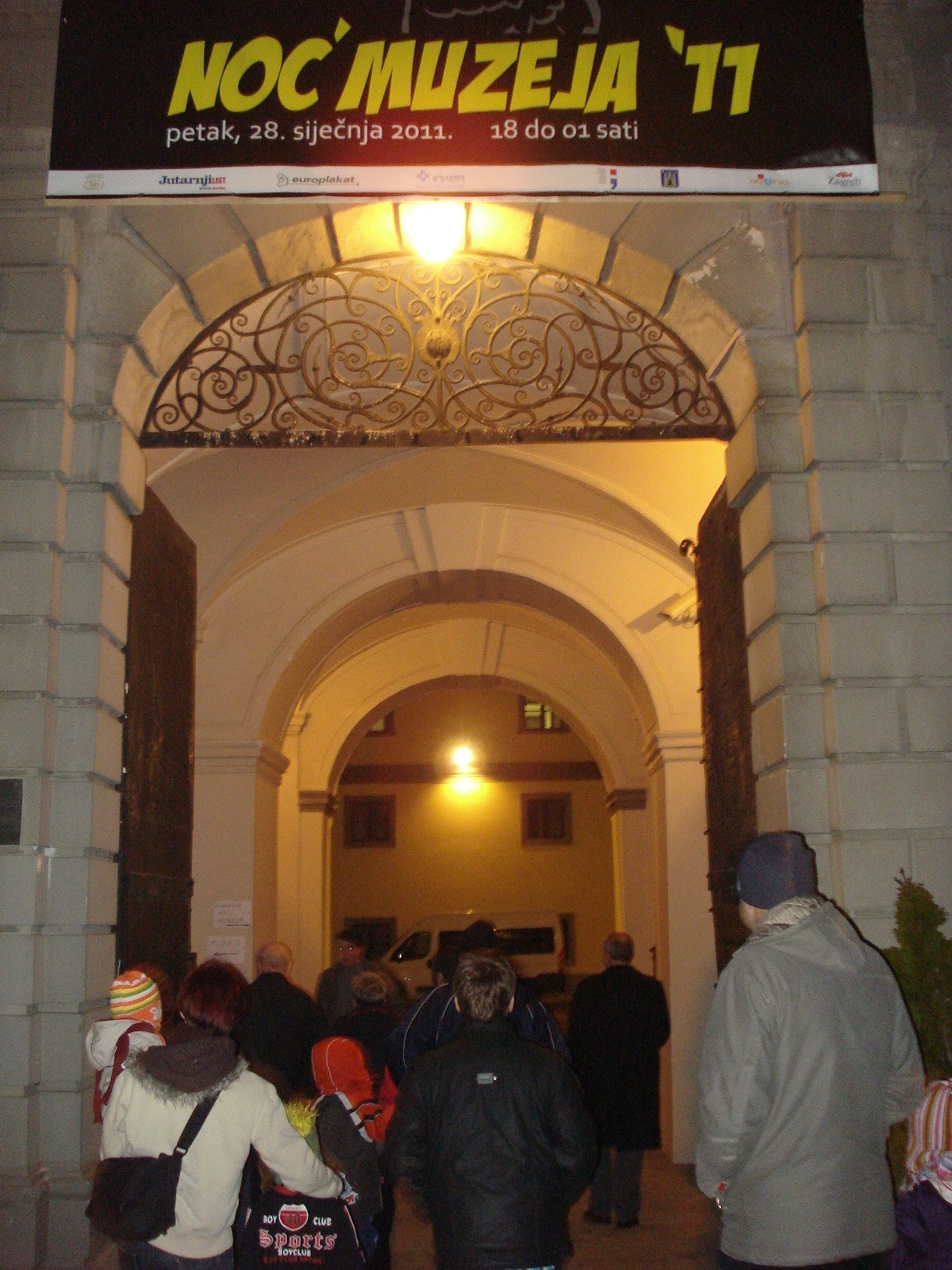 Night of museums 2011. in Čakovec (Croatia) - entrance